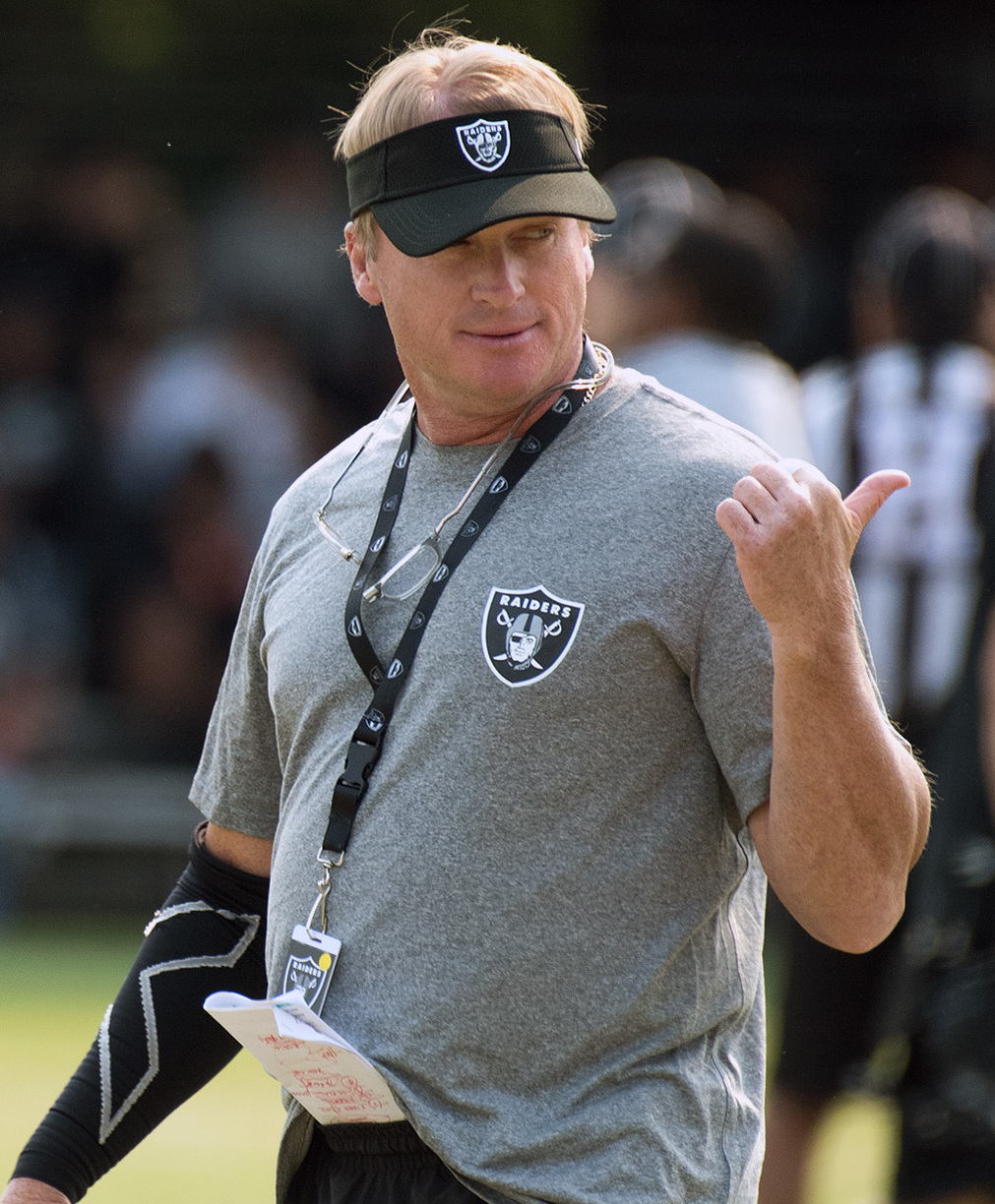 Oakland Raiders head coach Jon Gruden observes players during practice at their training facility in Napa Valley, Calif., August 7, 2018. The Raiders invited Travis Air Force Base Airmen to attend camp and were treated to a scrimmage between the Raiders and Detroit Lions and a meet and greet autograph session with players and coaches from both teams. (U.S. Air Force photo by Louis Briscese)